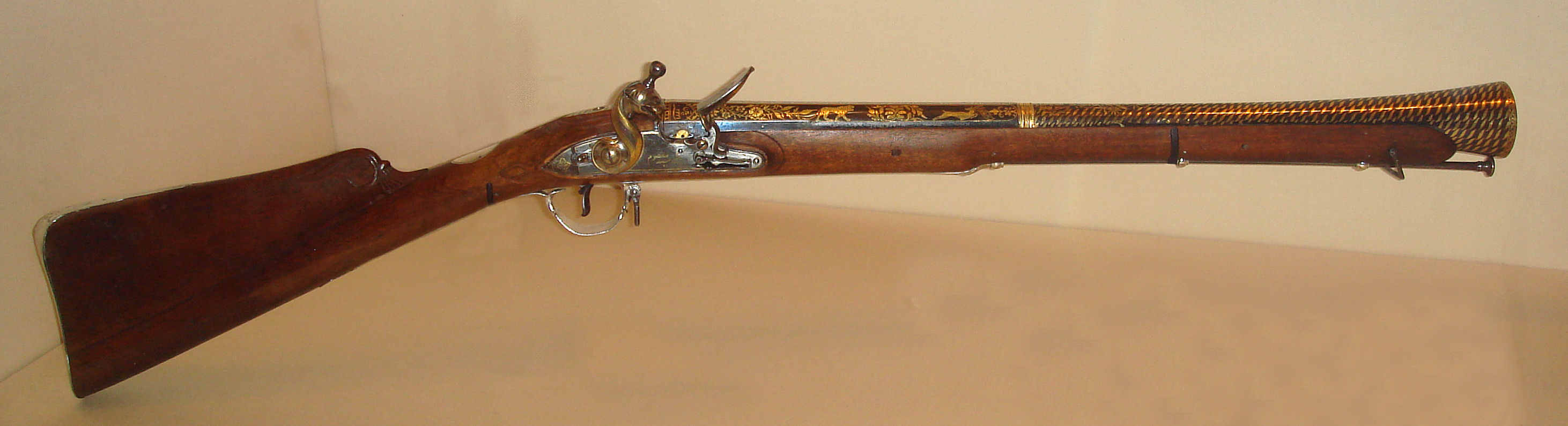 Flintlock_Blunderbuss_Tipoo_Sahib_Seringapatam_1793_1794.